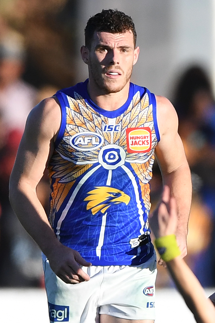 Luke Shuey of West Coast during the 2019 AFL round 18 match between Melbourne and West Coast at Traeger Park on Sunday, 21 July 2019 in Alice Springs, Northern Territory.